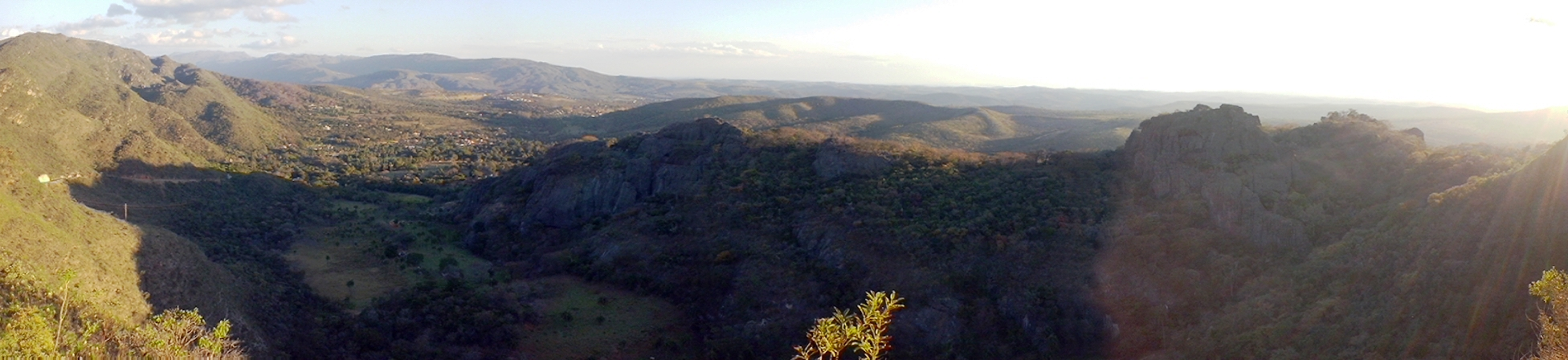 Panoramic of the Serra do Cipó in the Cardeal Mota district, in Santana do Riacho, Minas Gerais, Brazil.